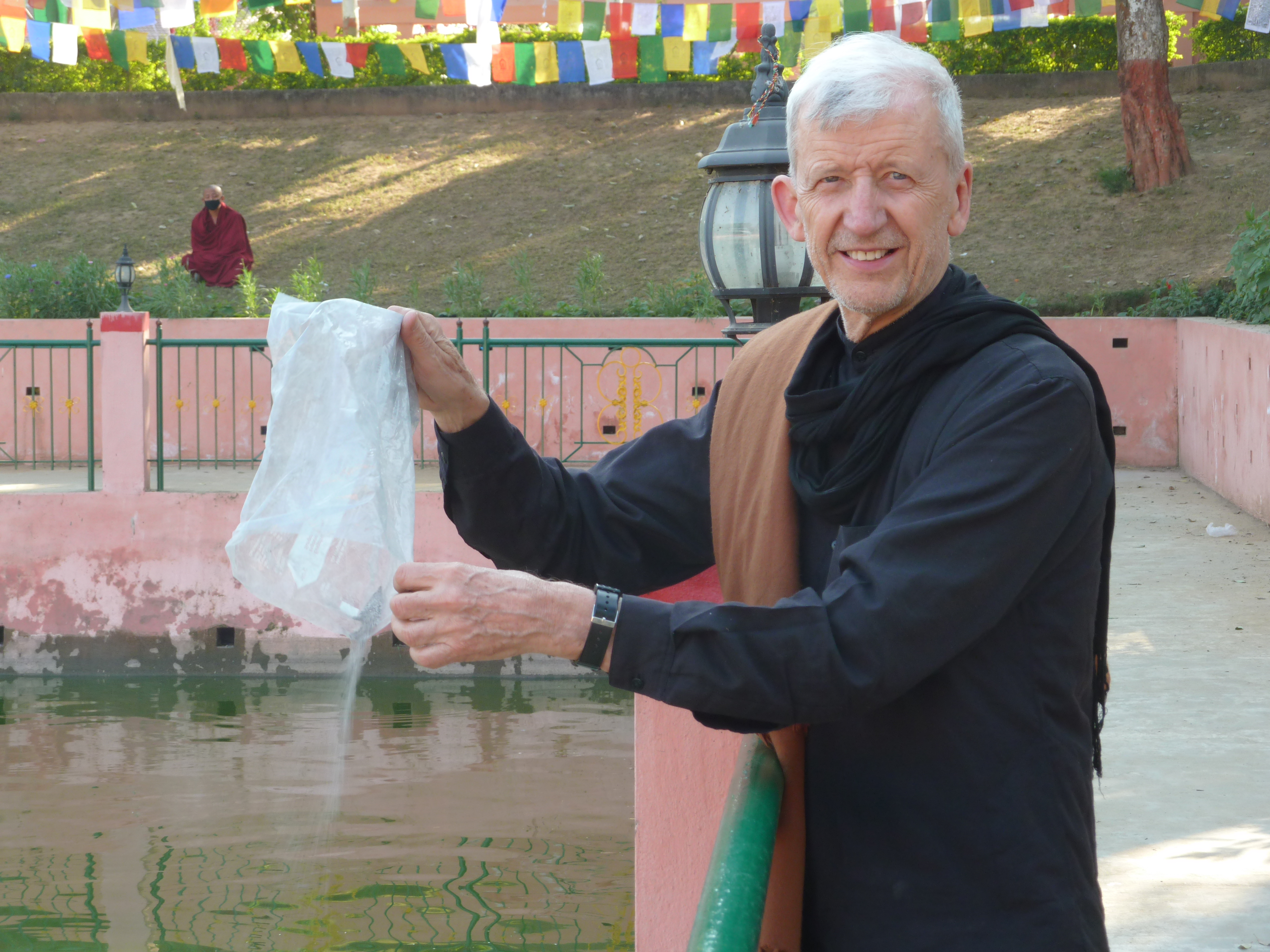 ChristopherTitmussBodhGaya